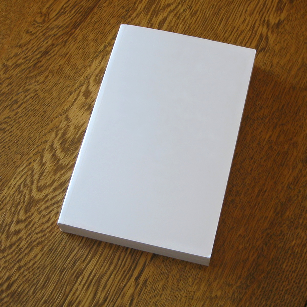 This is a photo of a white book on a wooden table, edited so that the cover of the book is completely blank.